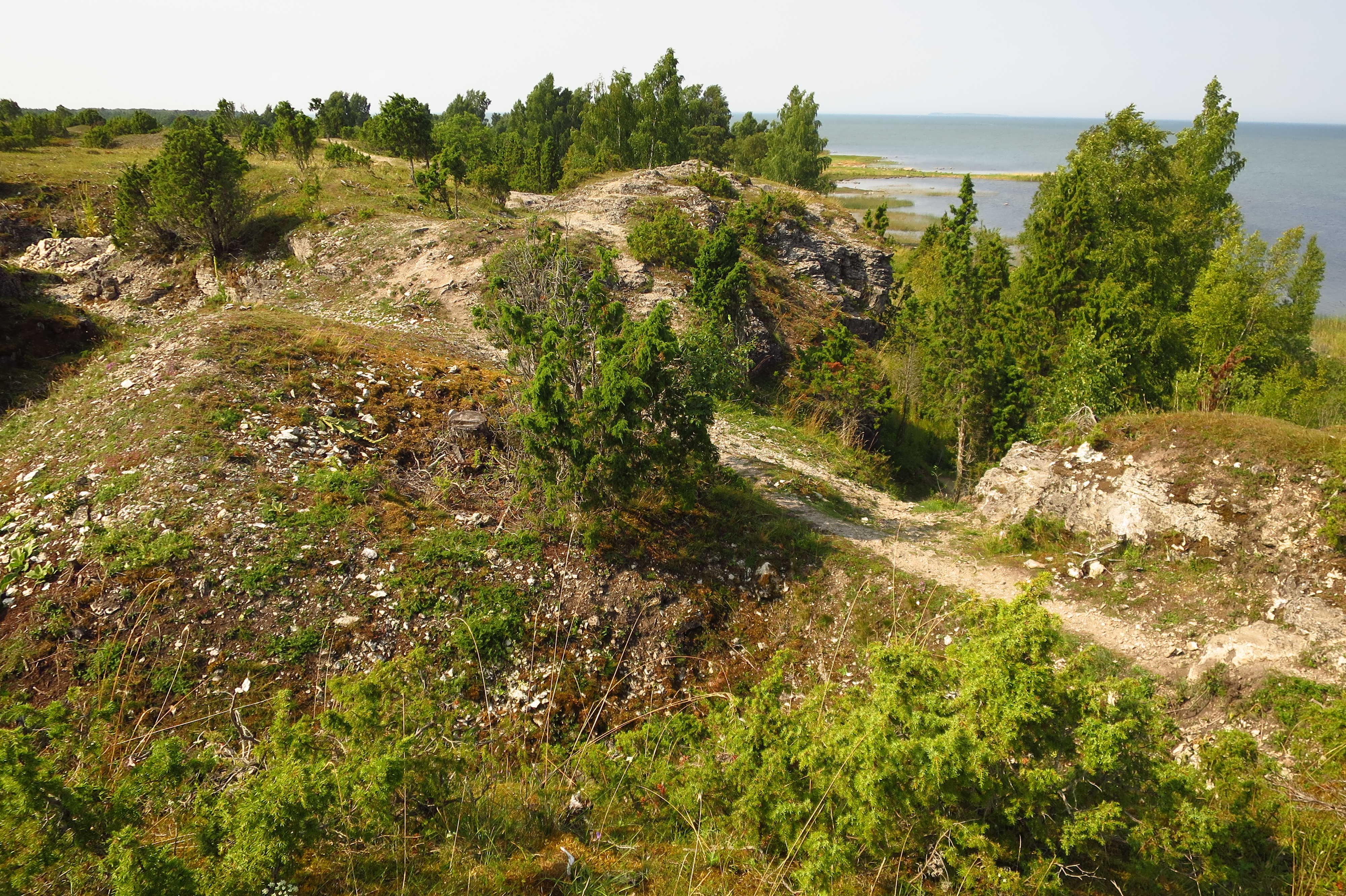 Üügu pank Üügu maastikukaitsealal